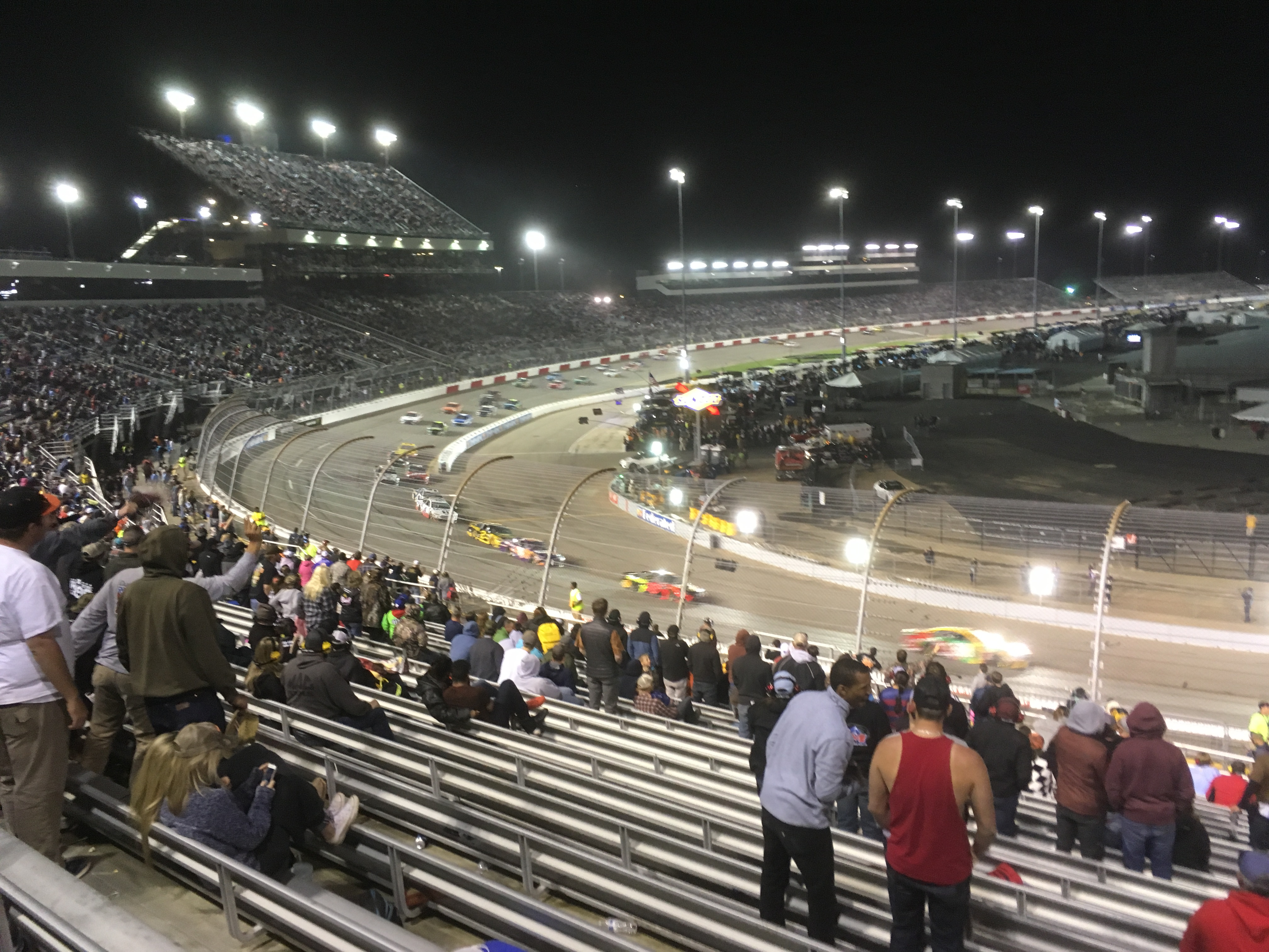 The 2018 Toyota Owners 400 at Richmond Raceway viewed from between turns 1 and 2, with eventual race winner Kyle Busch (#18) leading Martin Truex Jr. (#78) and the rest of the field late in the race.